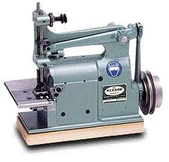 merrow, the merrow machine company, this image is available for public use